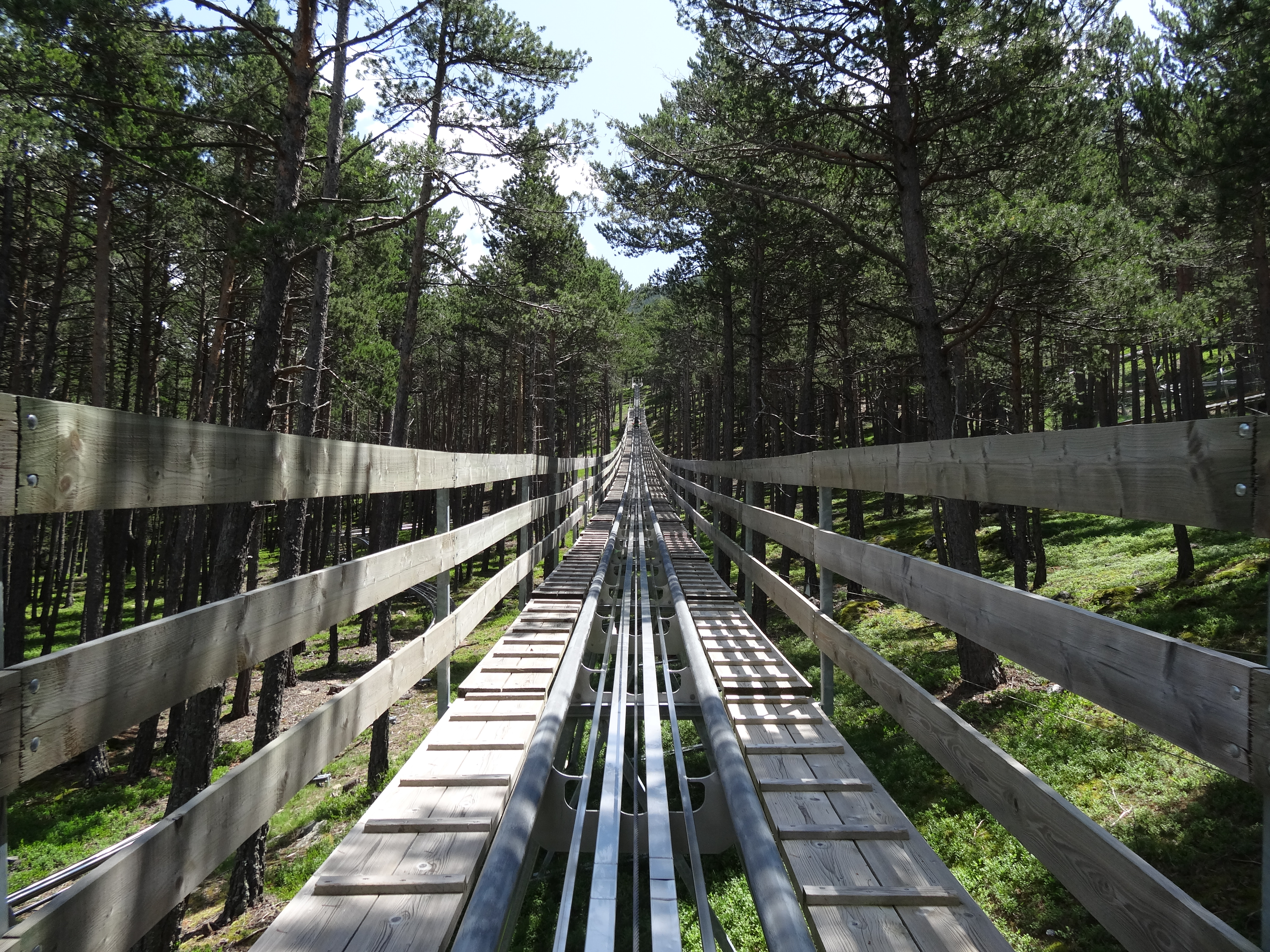 Tobotronc alpine coaster (Naturlandia, Andorra)